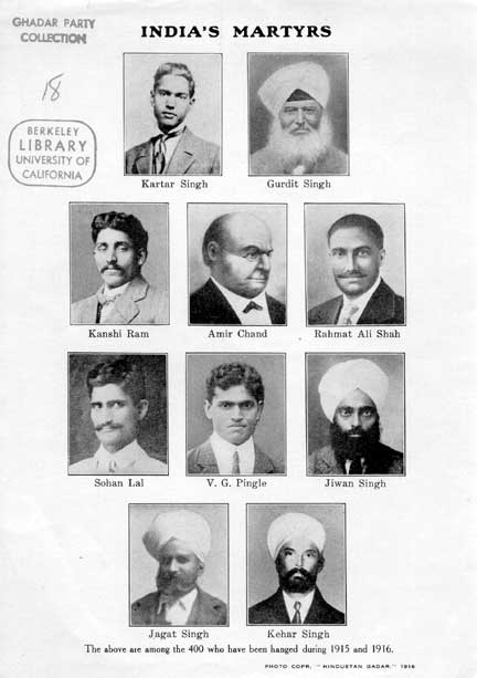 India's Martyrs ([San Francisco]: Hindustan Gadar, 1916). Handbill, 19.7 x 14 cm. This handbill shows photographs of ten Gadar patriots who were hanged or imprisoned in India by the British after the attempted revolution in 1915. It is from the Hindustan Ghadar, the primary publication of the US-based Gadhar Party.